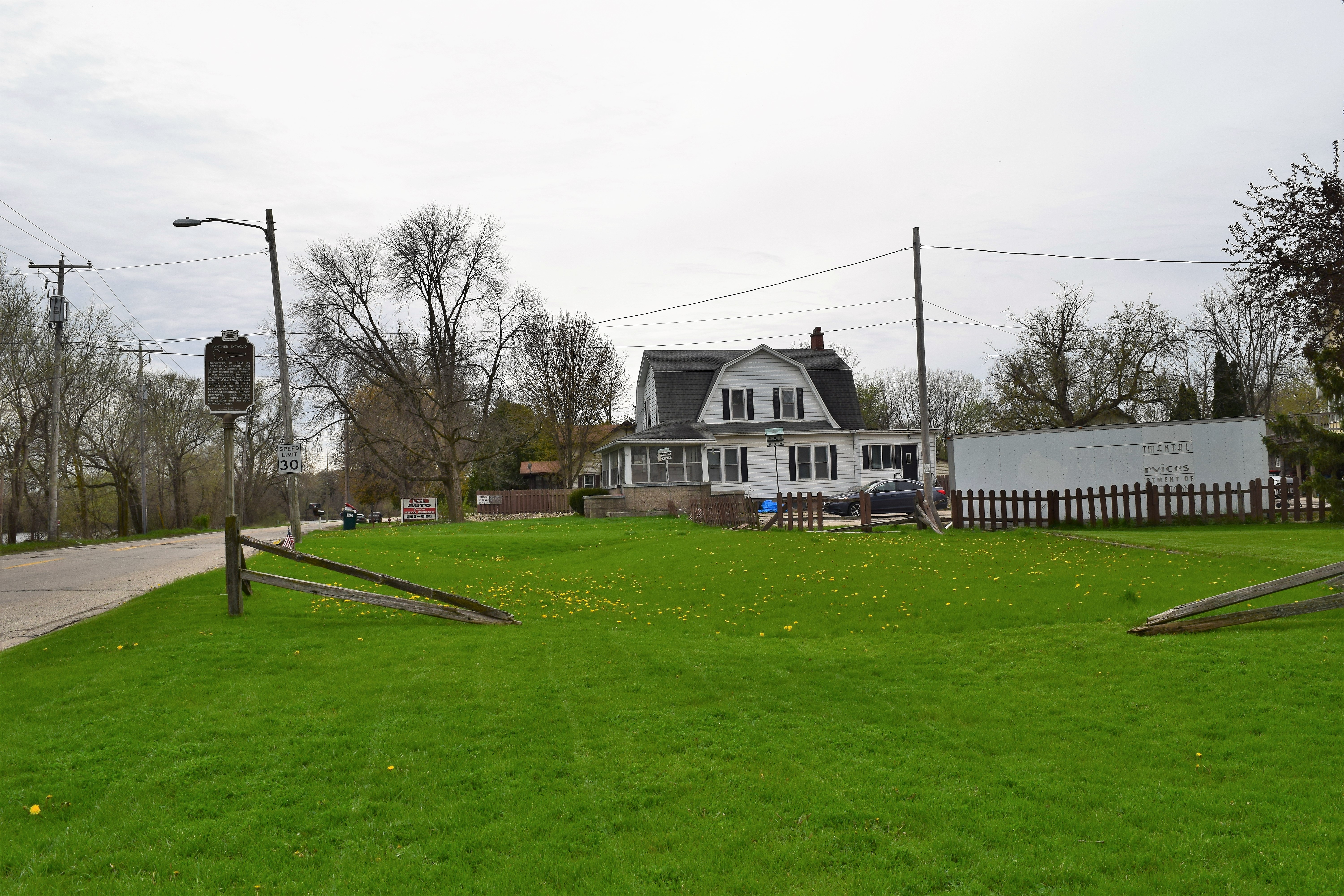 The Panther Intaglio Effigy Mound in Fort Atkinson, Wisconsin. The mound is the last known remaining intaglio mound in Wisconsin. It is listed on the National Register of Historic Places.